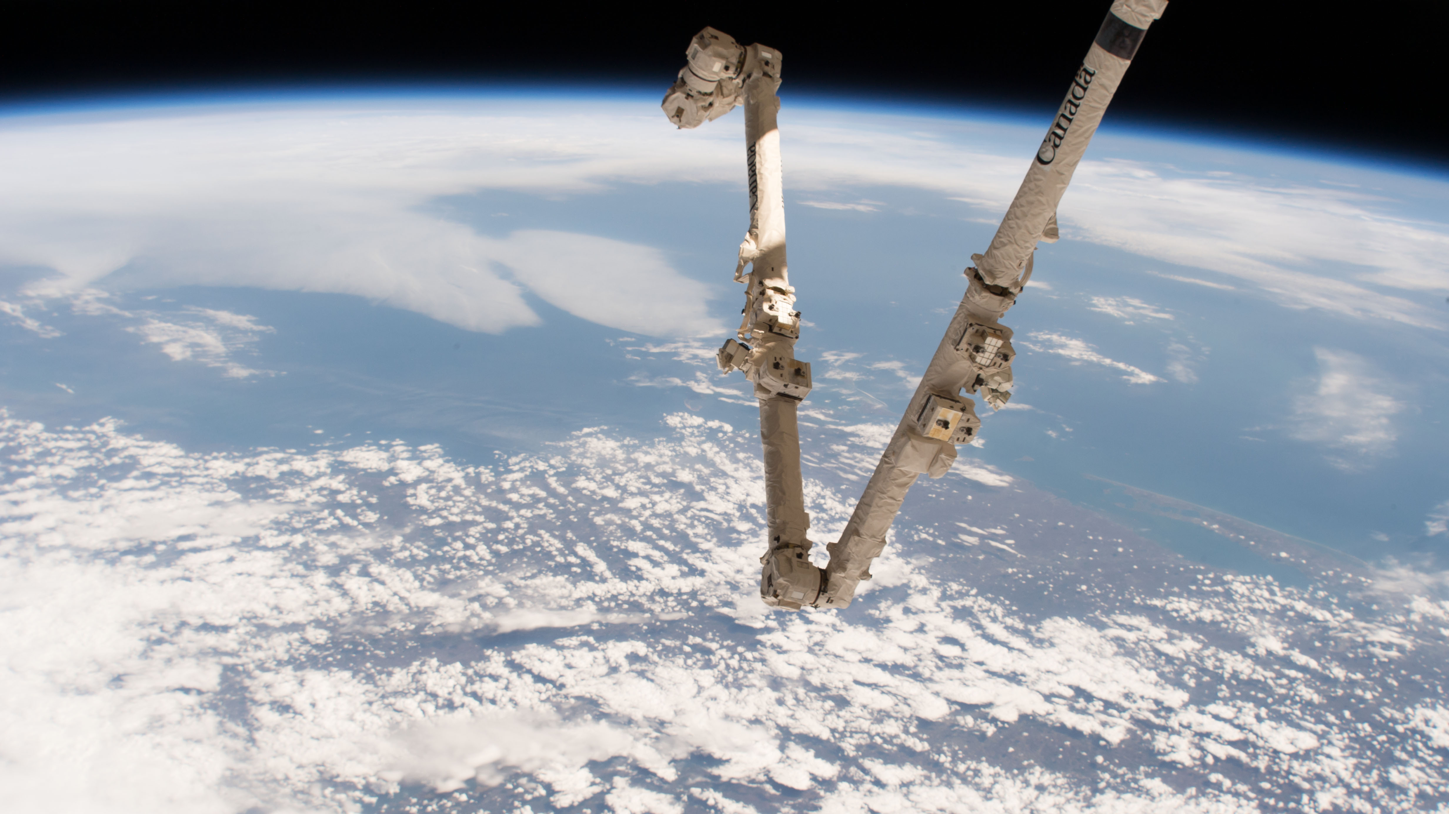 View of Earth and SSMRS taken by EHDC2 Canada's robotic arm, the Canadarm2, which is part of the Space Station Remote Manipulator System, is pictured with the Earth's limb in the background during a daytime orbital pass.